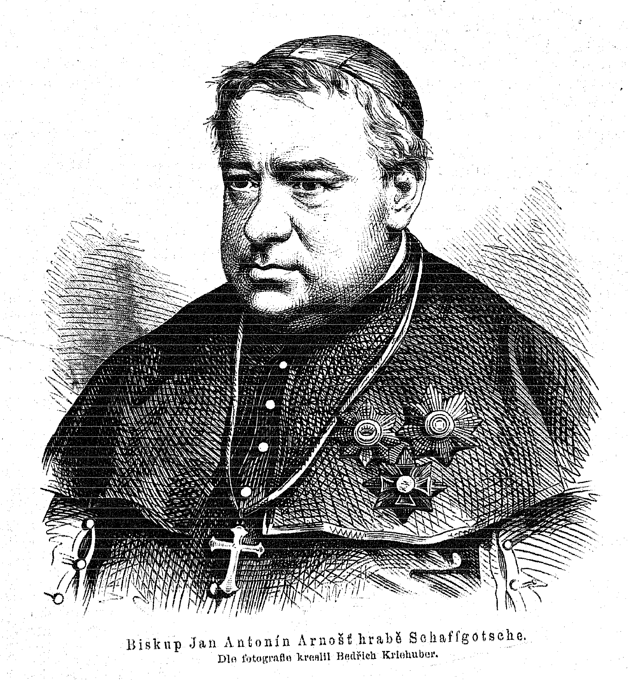 Portrait of Anton Ernst Schaffgotsch (Antonín Arnošt Schaffgotsche, 1804 - 1870), Bishop of Brno